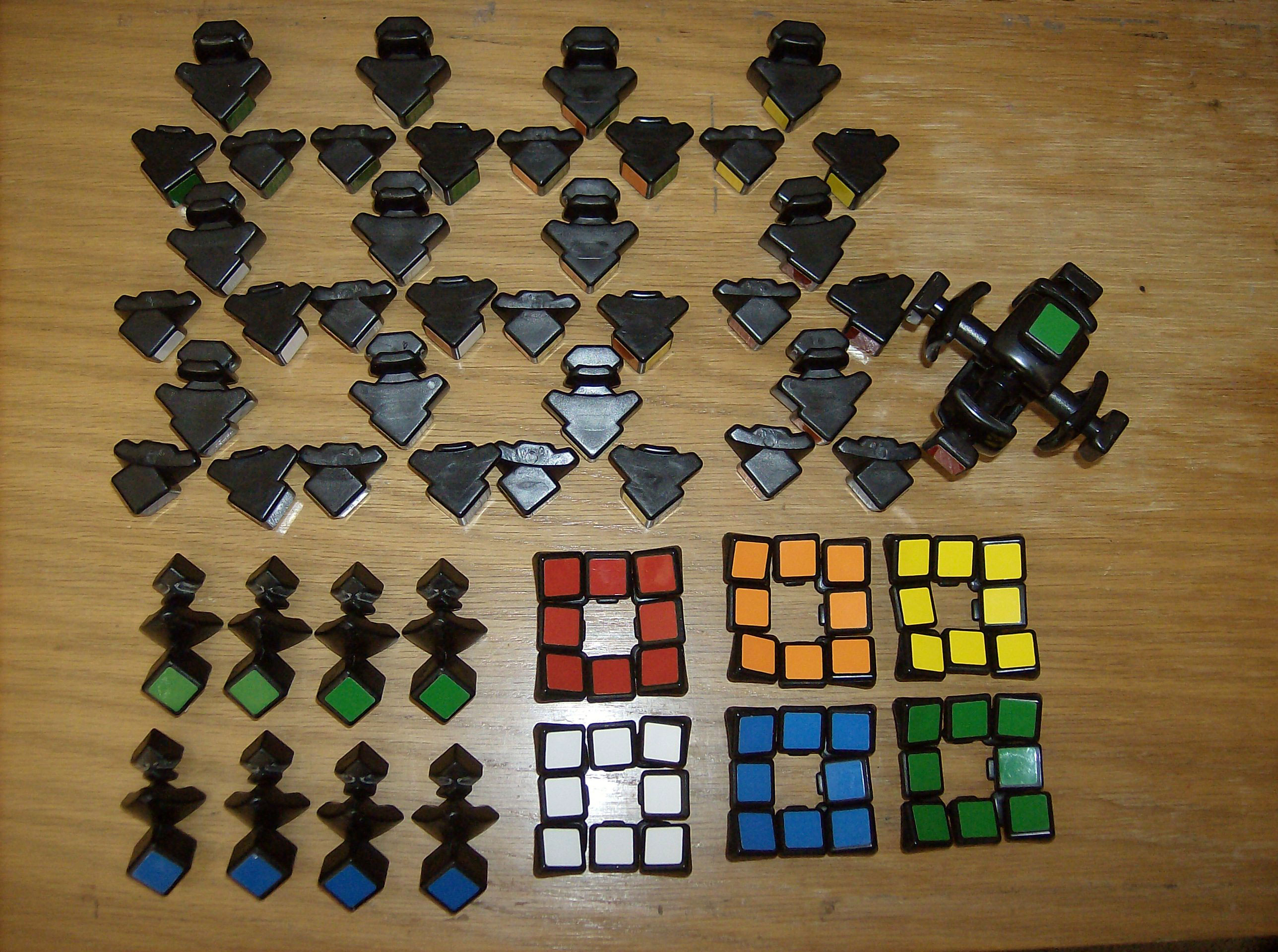 A disassembled Professor's Cube. A comparison of these pieces to the corresponding pieces of the Eastsheen and V-Cube versions can be seen here.